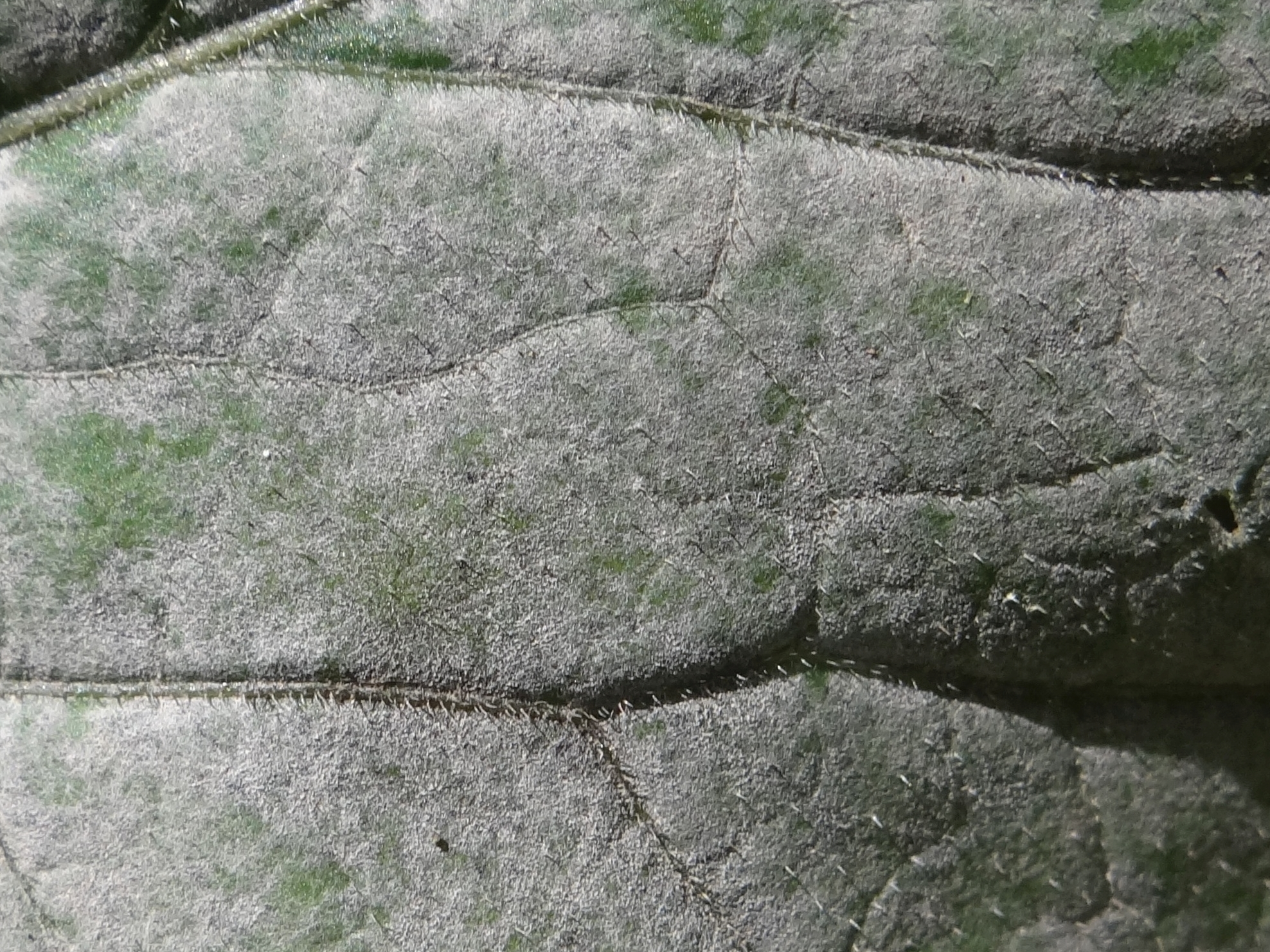 'Erysiphe cruciferarum on Thlaspi arvense. Location: Slovakia, Słowacki Raj